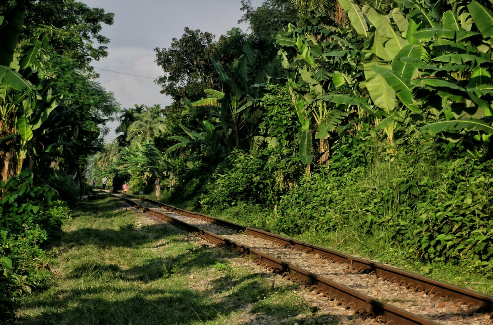 This Picture Was Captured at Chokbochai Rail crossing in